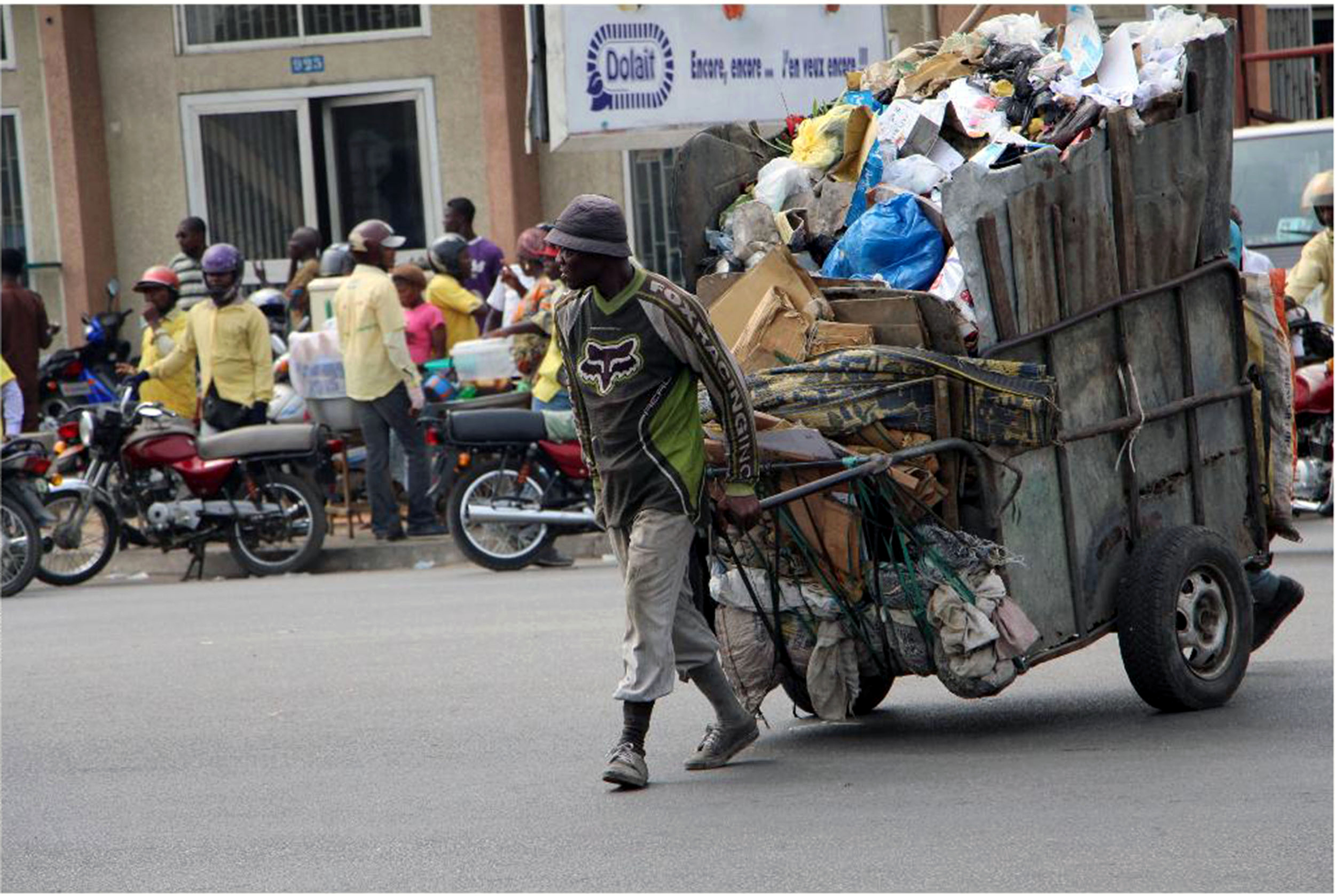 the surroundings of the city must be kept clean by picking up bites on the sidewalks This is an image with the theme "Africa on the Move or Transport" from: Benin